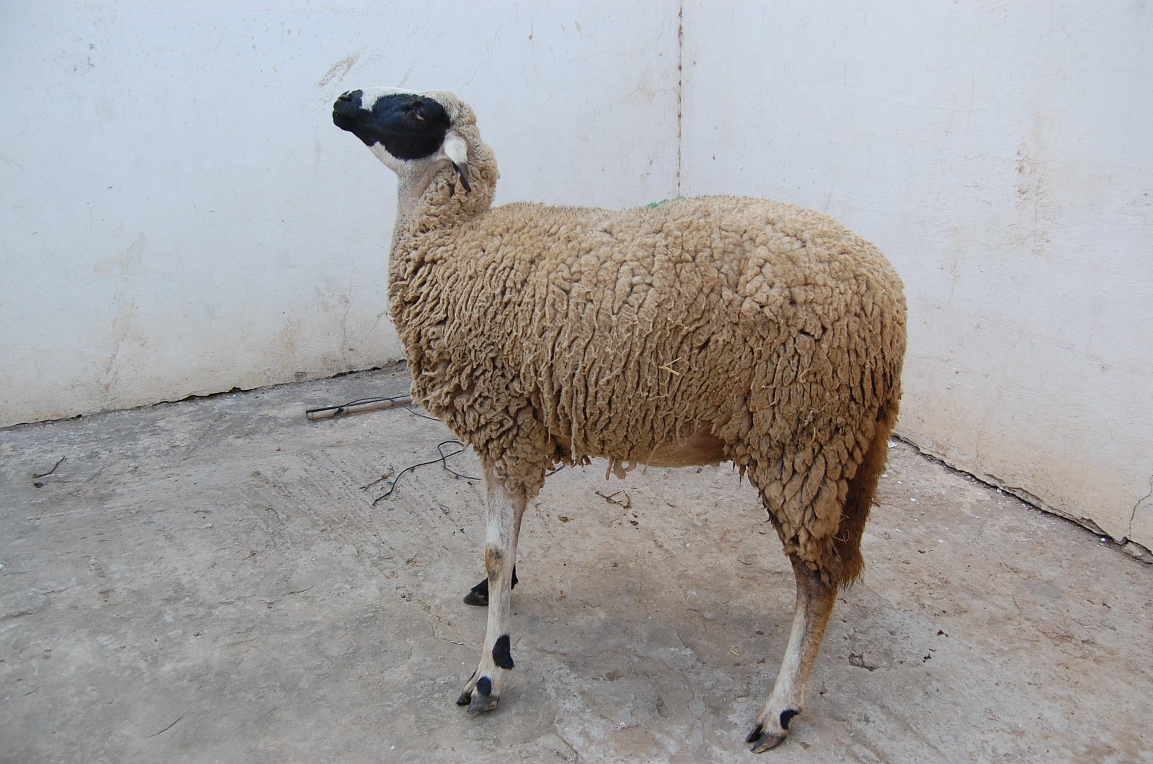 ewe with encephalomalacia: star gazing